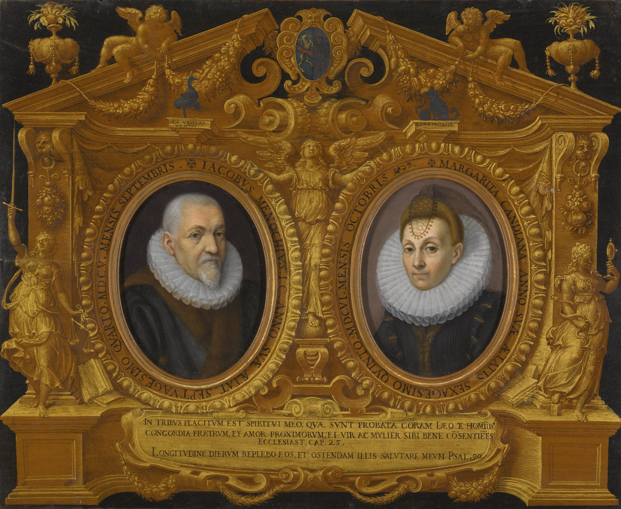 The two oil on copper portraits are set into a painted wooden panel